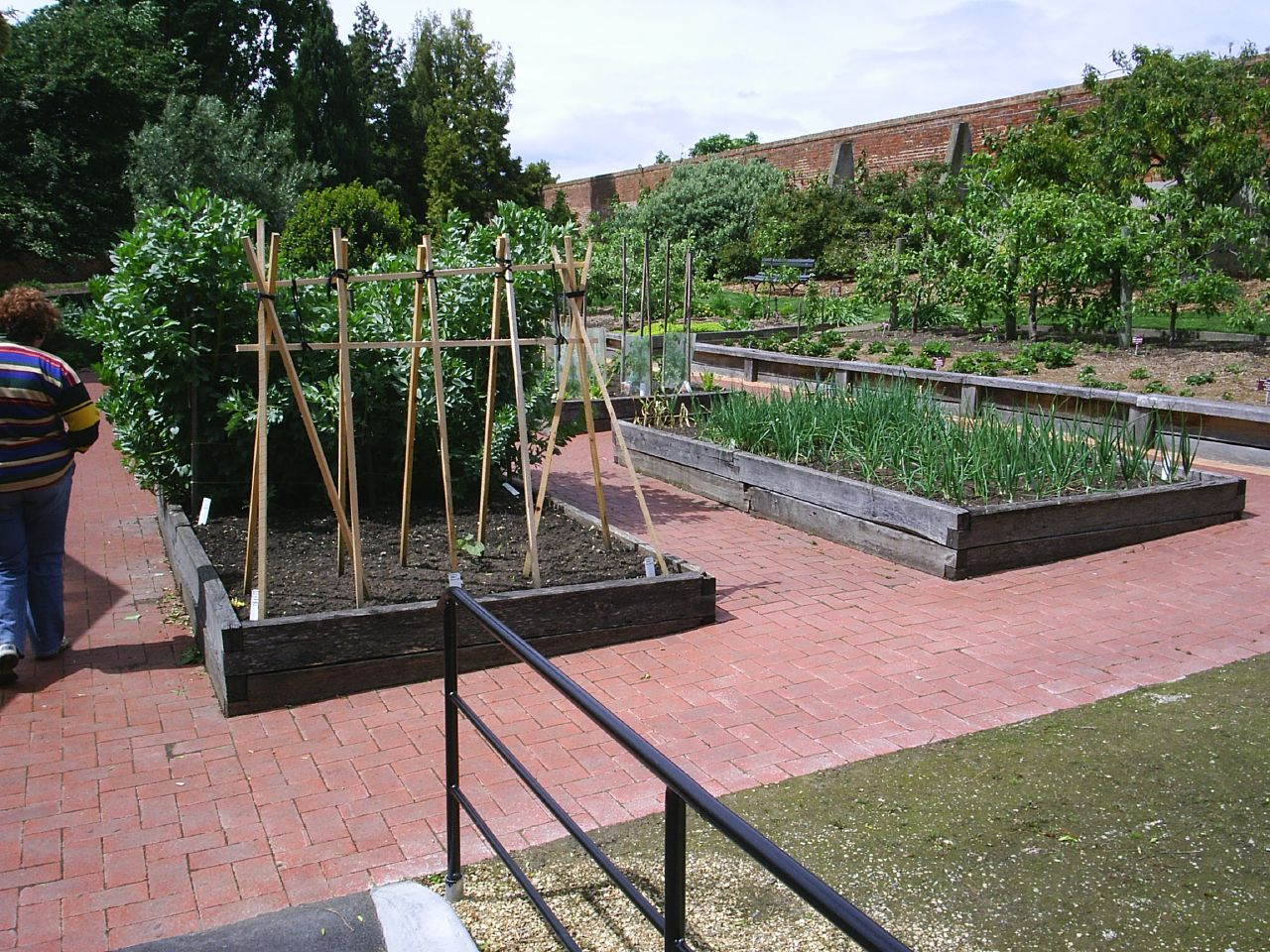 Peter Cundall's vegetable patch, from the ABC program "Gardening Australia", in the Hobart botanical gardens.